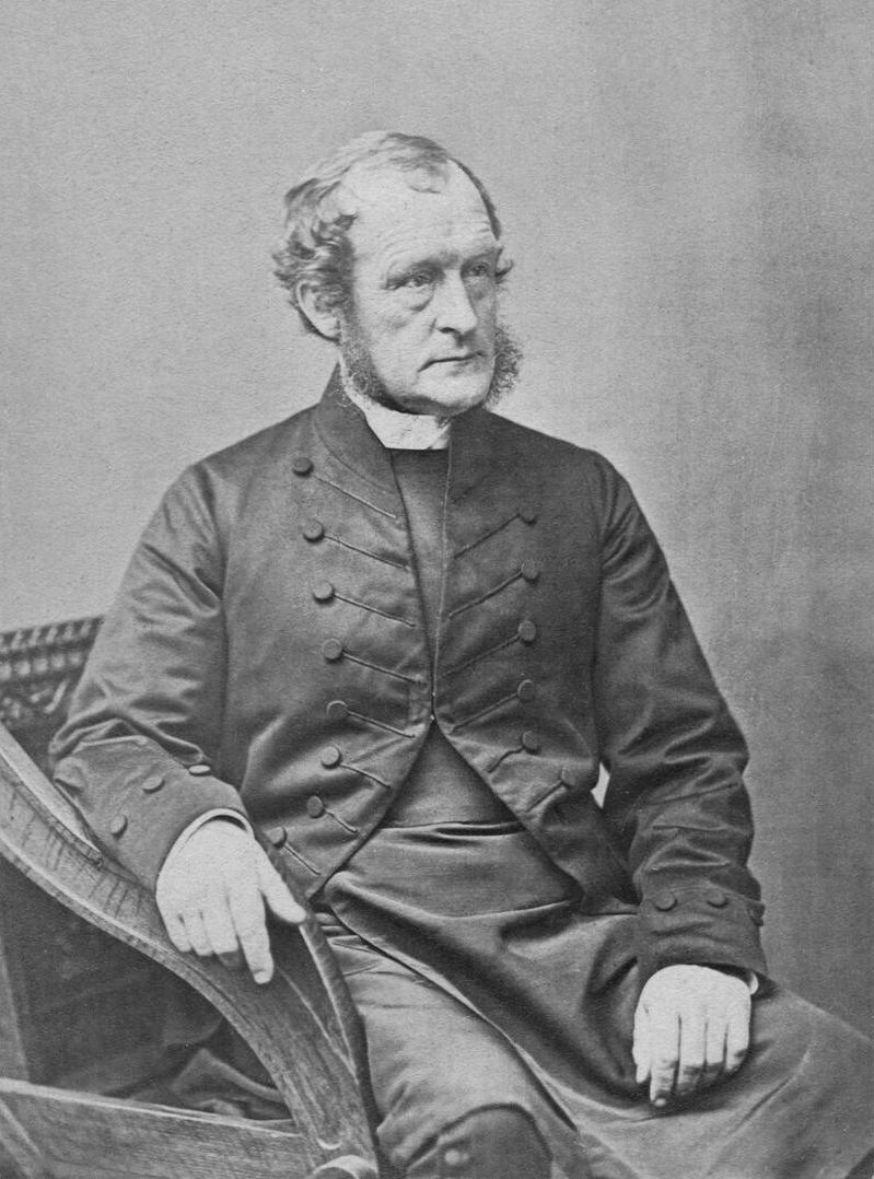 Selwyn, George Augustus (1809–1878), first Anglican Bishop of New Zealand, by Mason & Co.